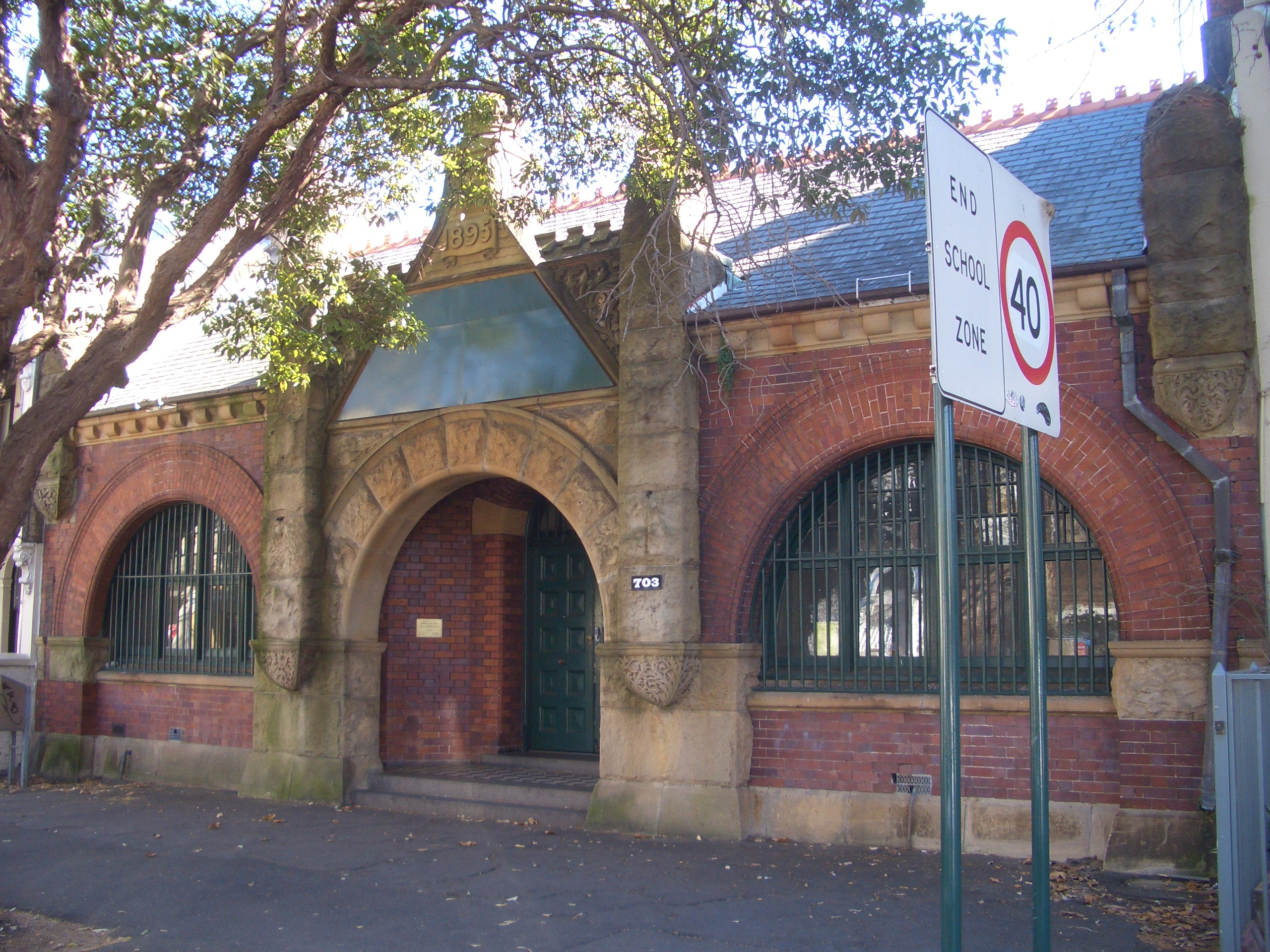 former police station, Bourke Street, Surry Hills, Sydney